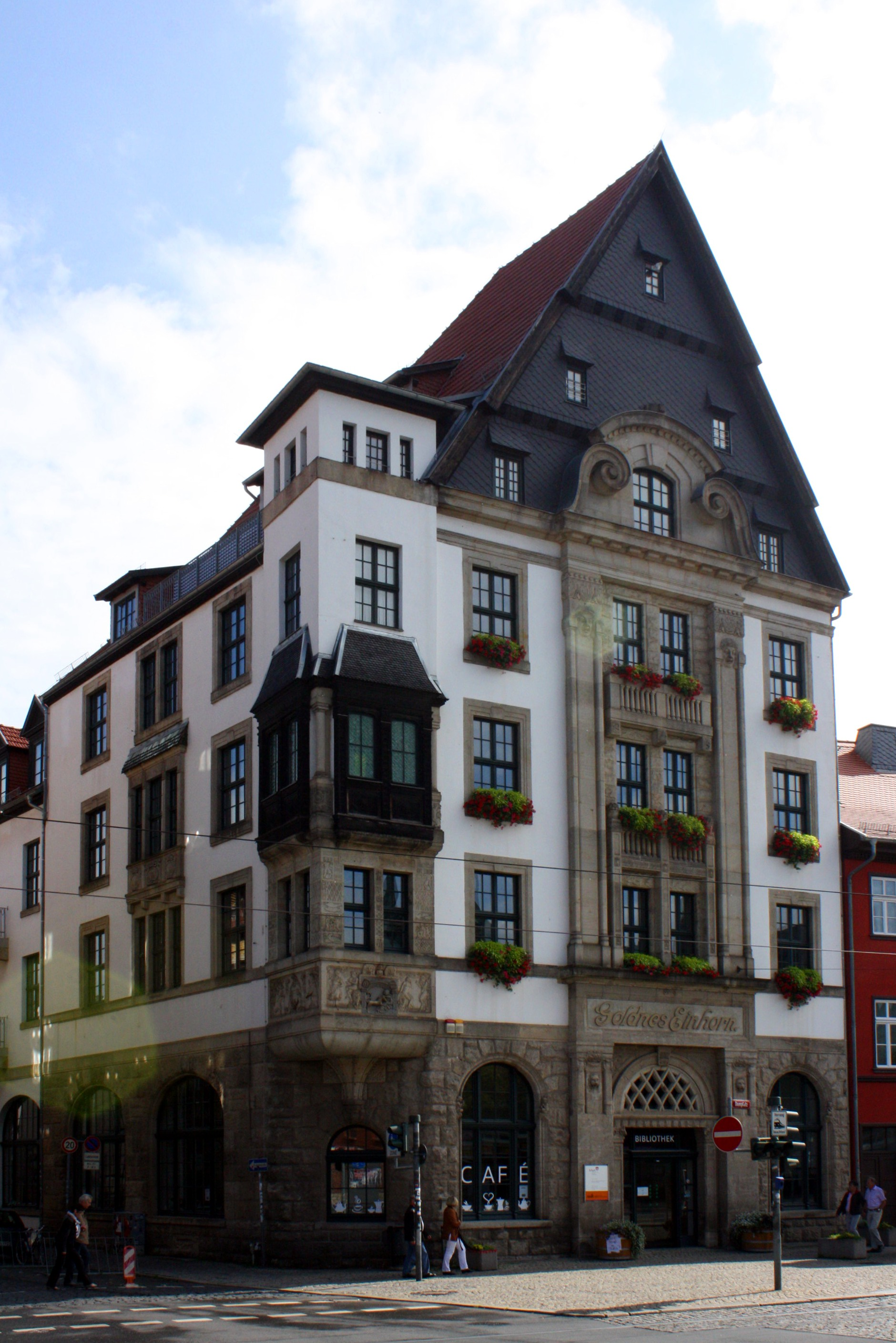 Domplatz (Cathedral place) No. 1 in Erfurt/Thuringia